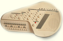 An Omnichord OM300